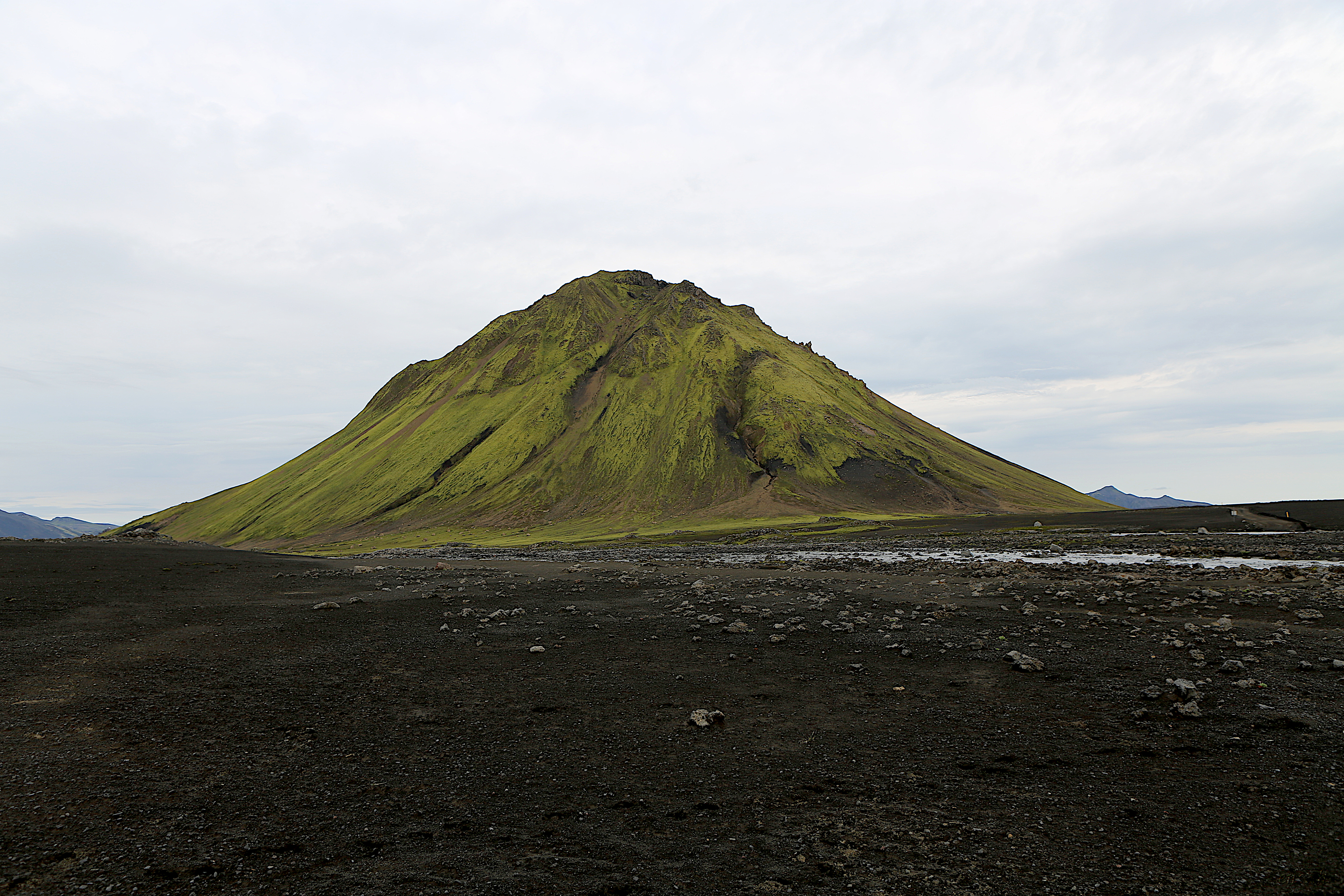 Mælifell